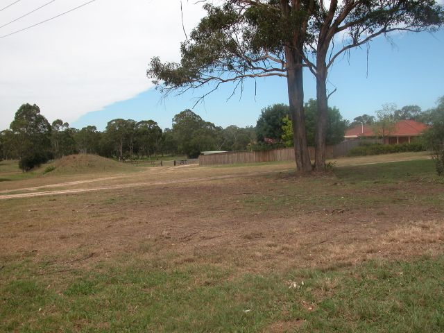 Colebee and Nurragingy Land Grant: Development along Richmond Street frontage